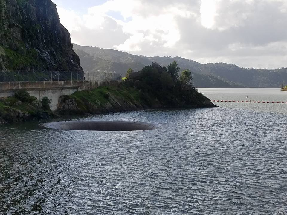 Lake Berryessa at full capacity. Feb. 16th 2017